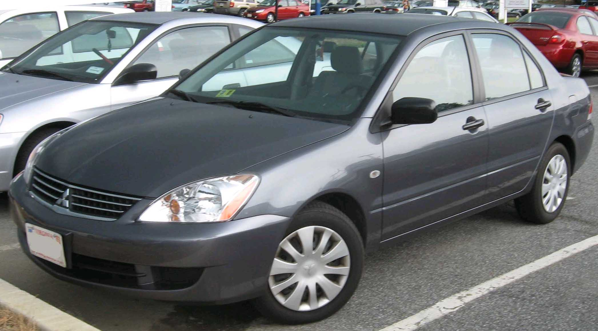 2006 Mitsubishi Lancer photographed in USA.